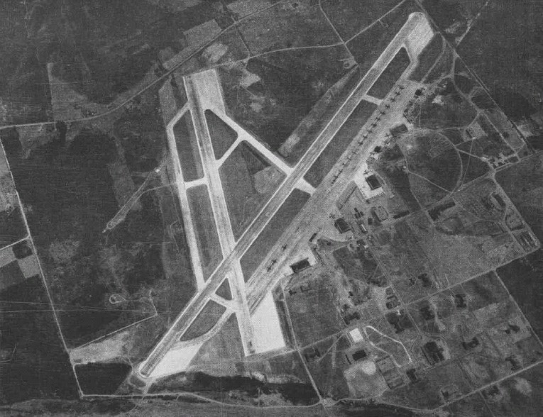 The Naval Air Station Whidbey Island, Washington State, USA, about 1946/47.